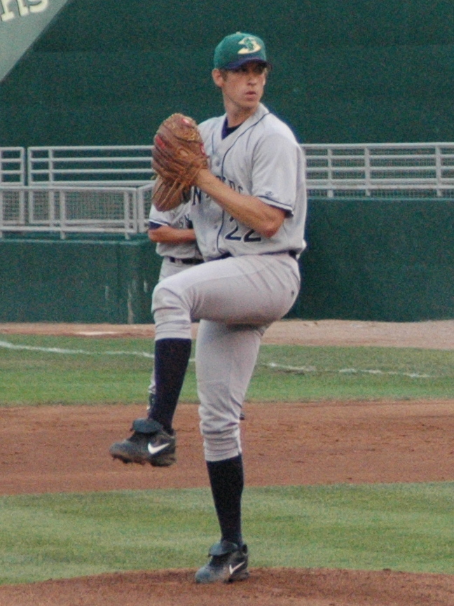 Kevin Slowey pitches for the Beloit Snappers against the Lansing Lugnuts in Lansing, Michigan in 2005.